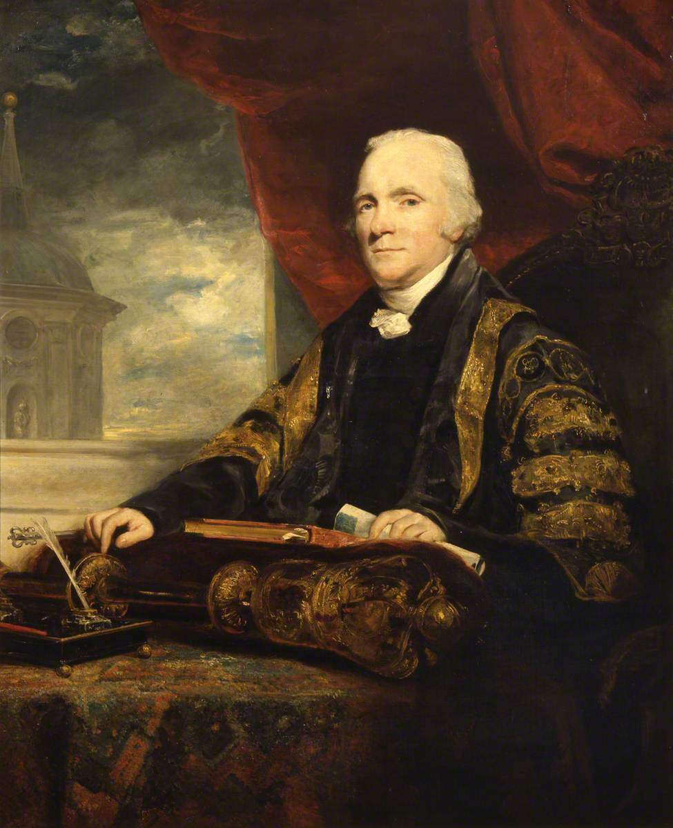 Jackson, John; John Latham (1761-1831); Royal College of Physicians, London